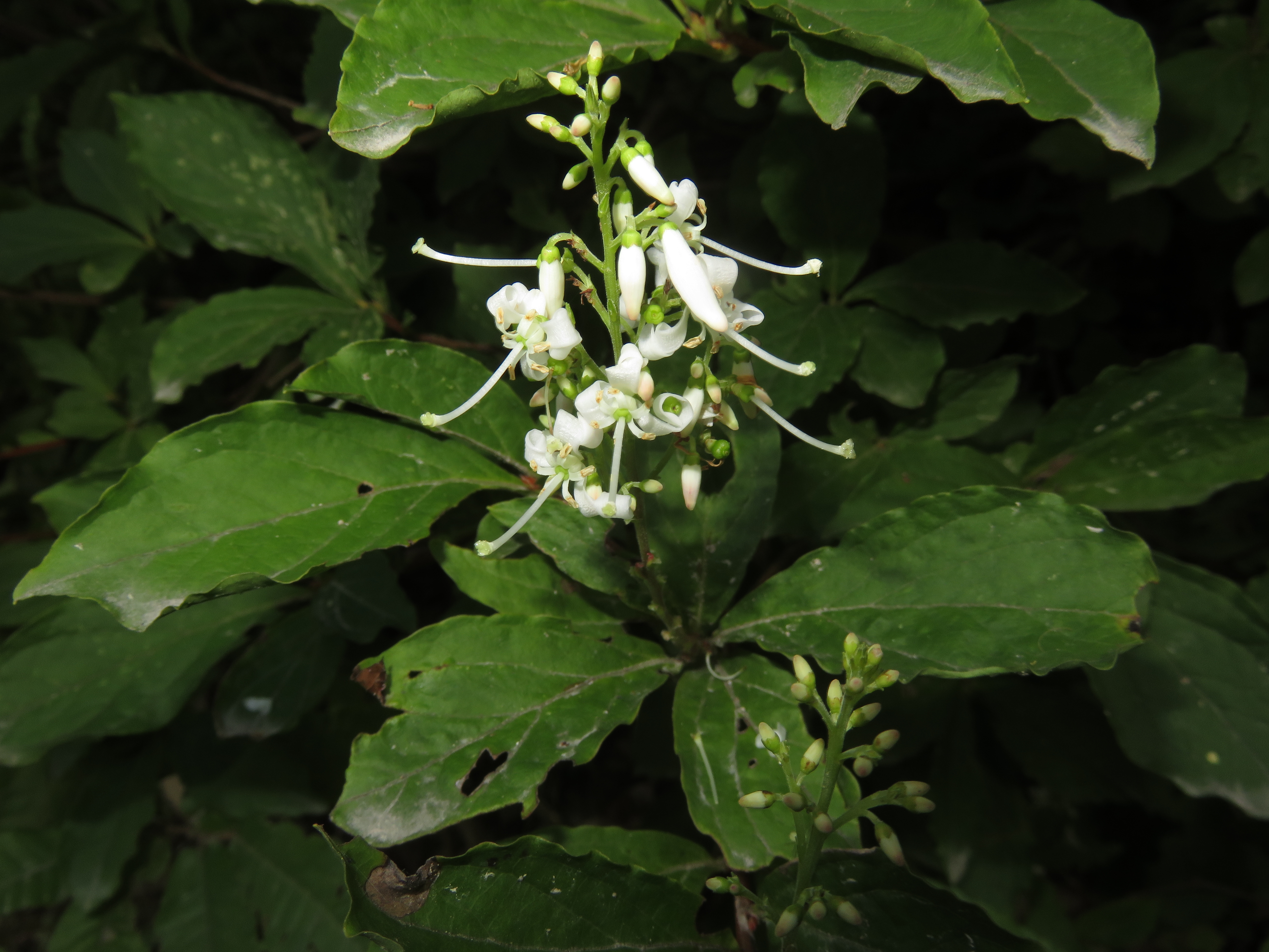 Elliottia paniculata, Aizu area, Fukushima pref., Japan